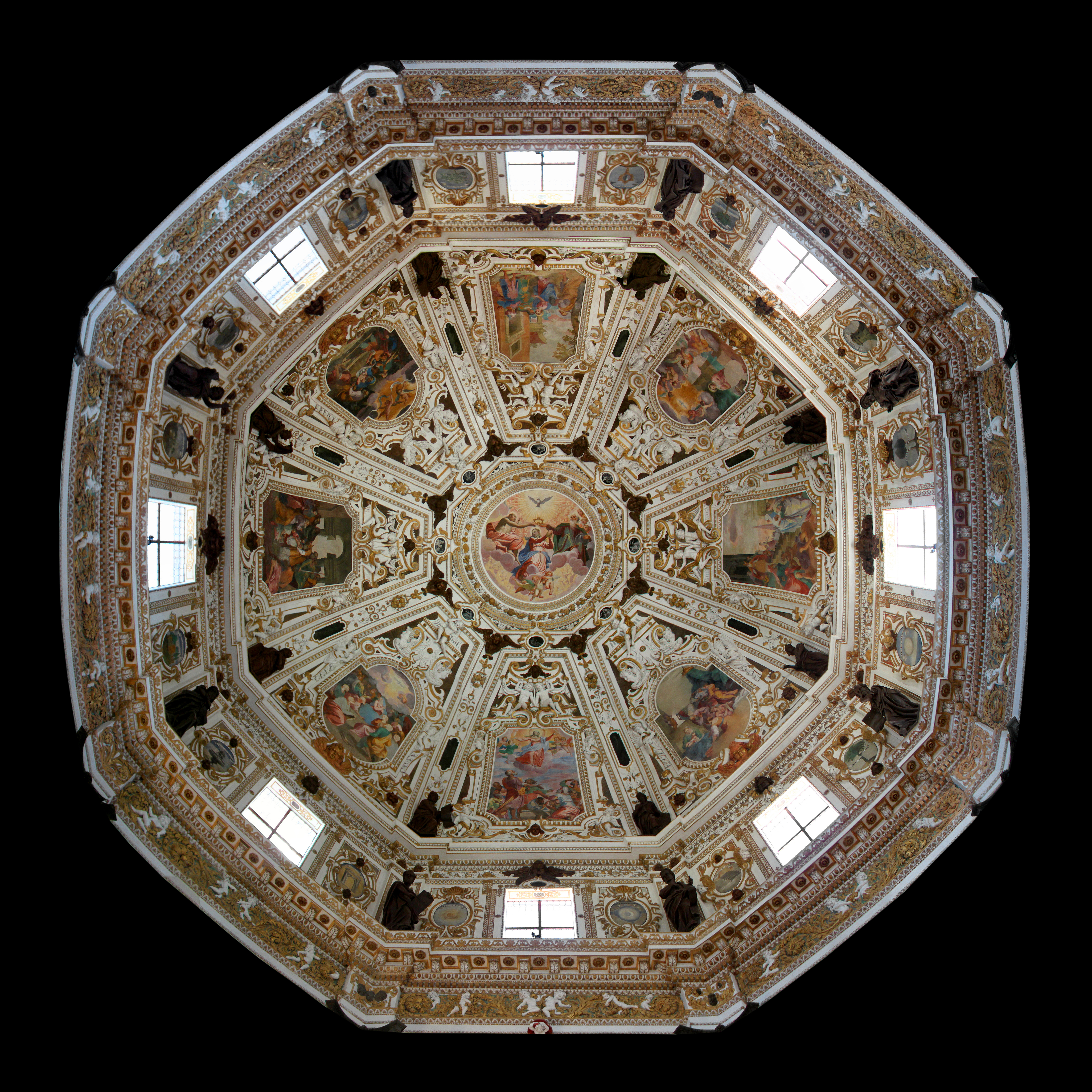 Chiesa dell'Inviolata, Riva del Garda, Italy. Dome with paintings by Martino Teofilo Polacco (1570-1639). Around the central painting Assunzione di Maria (Assumption) eight more paintings with scenes from the life of Mary are grouped in a circle: Navità della Vergine (Birth of the Virgin), Presentazione della Vergine al Tempio (Presentation of the Virgin in the Temple), Annunciazione (Annunciation), Visitazione (Visitation), Nacita di Gesù Cristo (Birth of Jesus Christ), Presentazione di Gesù al Tempio (Presentation of Jesus in Temple), and Dicesa dello Spirito Santo (descent of the Holy Spirit). Below are 16 statues of prophets and prophetesses, between them ovals with symbols for the Virgin Mary.